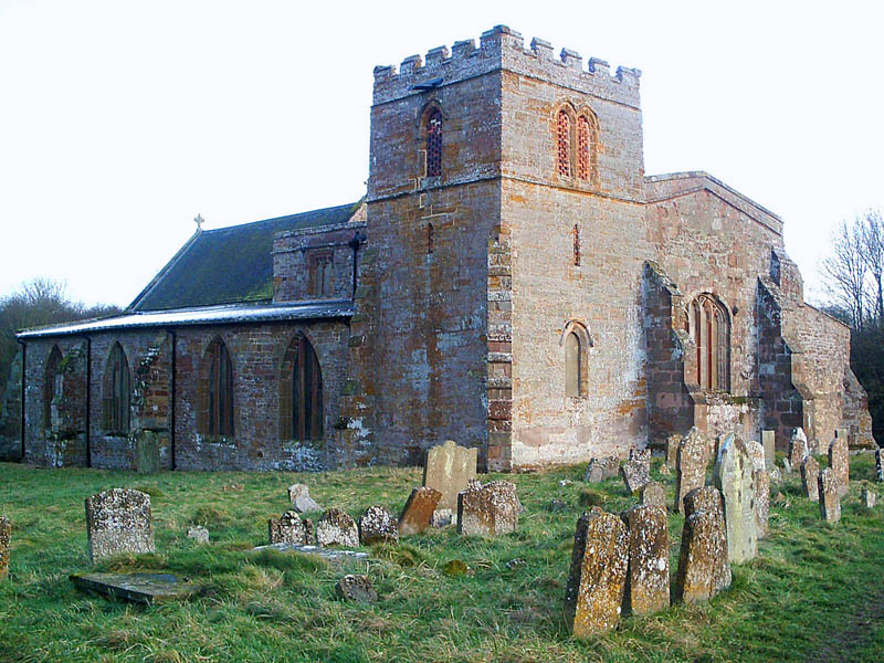 The church of St Peter standing in the deserted village of Wolfhampcote in Warwickshire, England Photo by G-Man Jan 2005